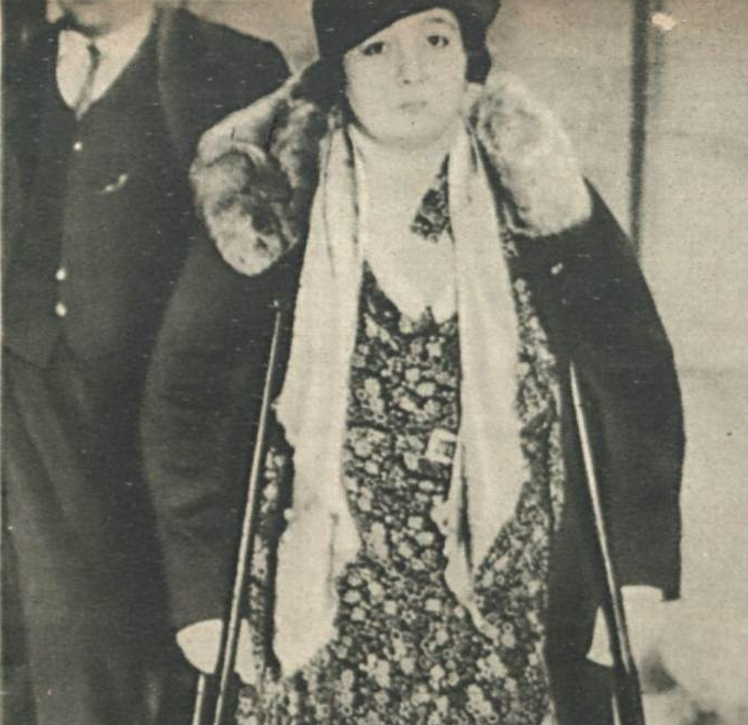 Marthe Hanau (1890-1935) was a Frenchwoman who defrauded French financial markets in the 1920s and 1930s.